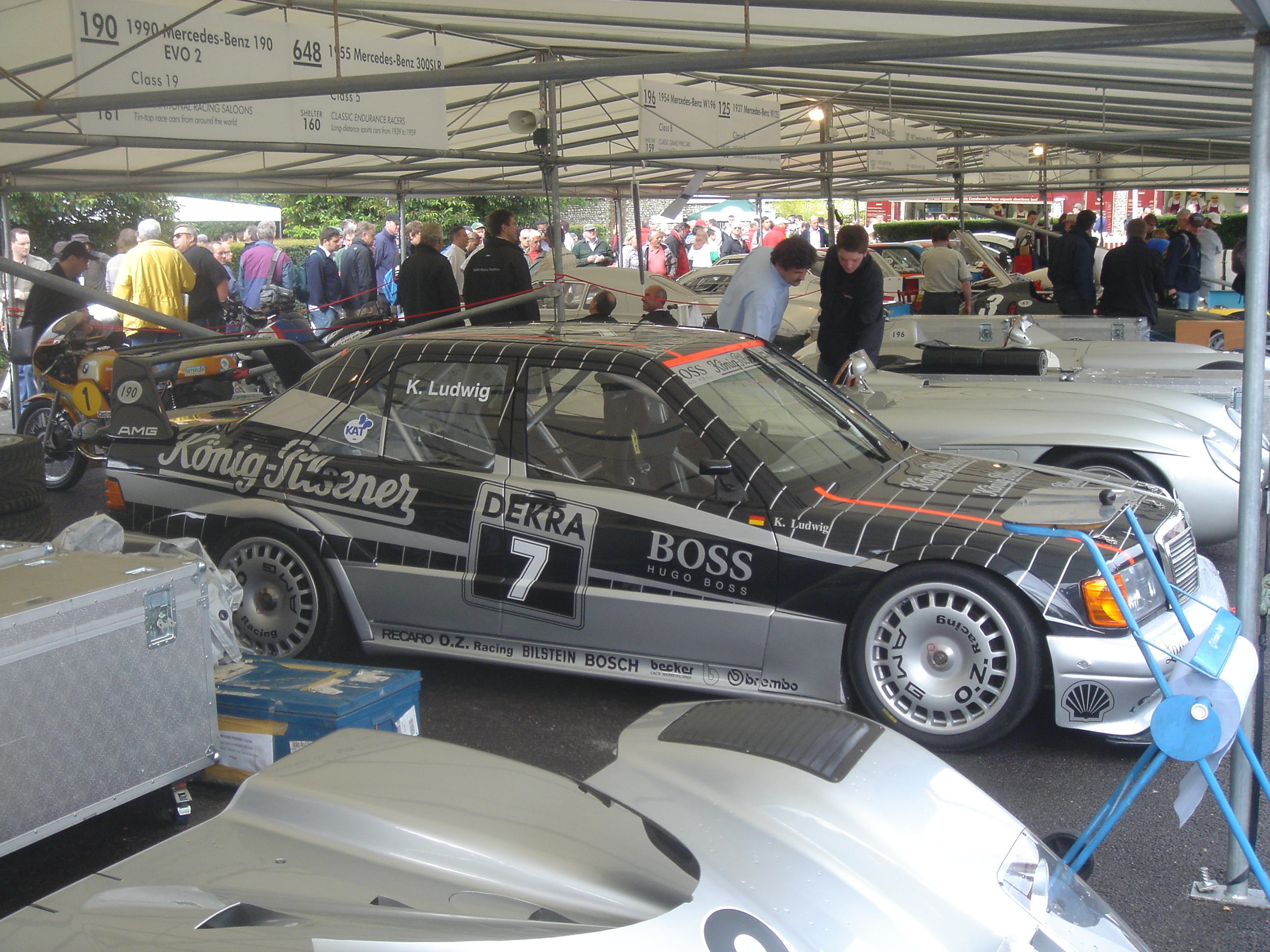 Goodwood Festival of Speed 2007 - Mercedes-Benz 190 EVO 2 in F1 paddock